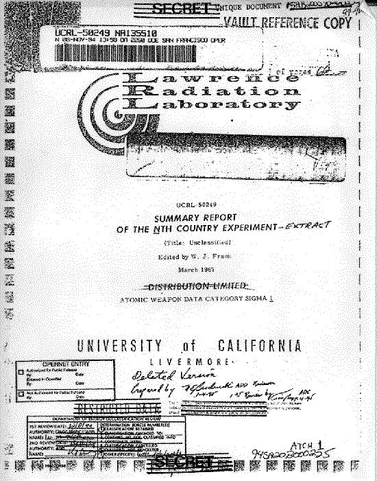 Cover page of the "Summary Report of the Nth Country Experiment".